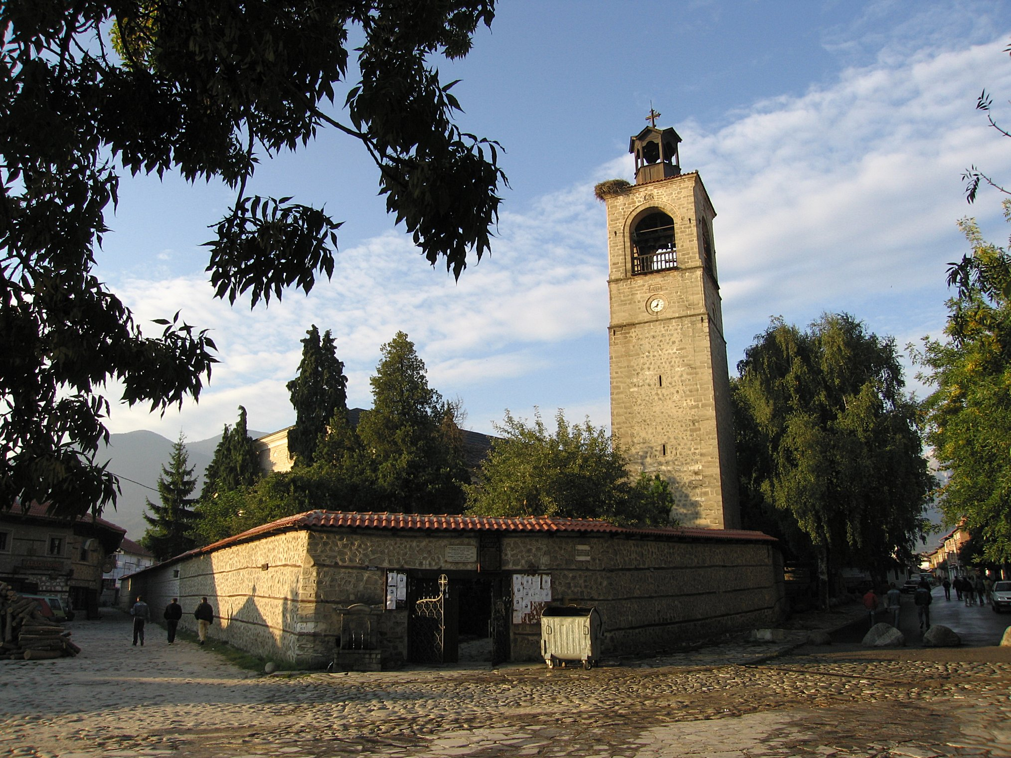 Trinity church (Sv. Troica, build ca. 1835) in Bansko, Bulgaria. Belltower (height 30 m) errected 1850.